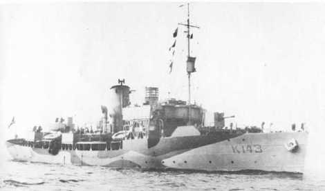 HMCS Louisburg - 1st of its name